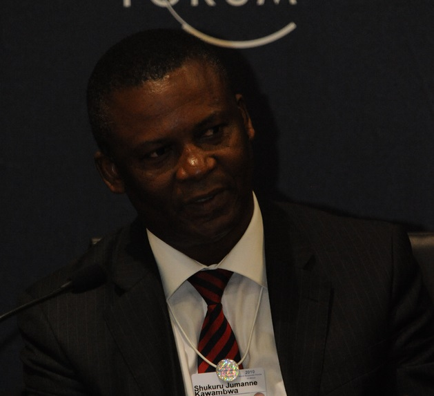 DAR ES SALAAM/TANZANIA, 7MAY10 - Hon. Shukuru Jumanne Kawambwa (Minister of Infrastructure Development of Tanzania) at the World Economic Forum on Africa held in Dar es Salaam, Tanzania, May 7, 2010.